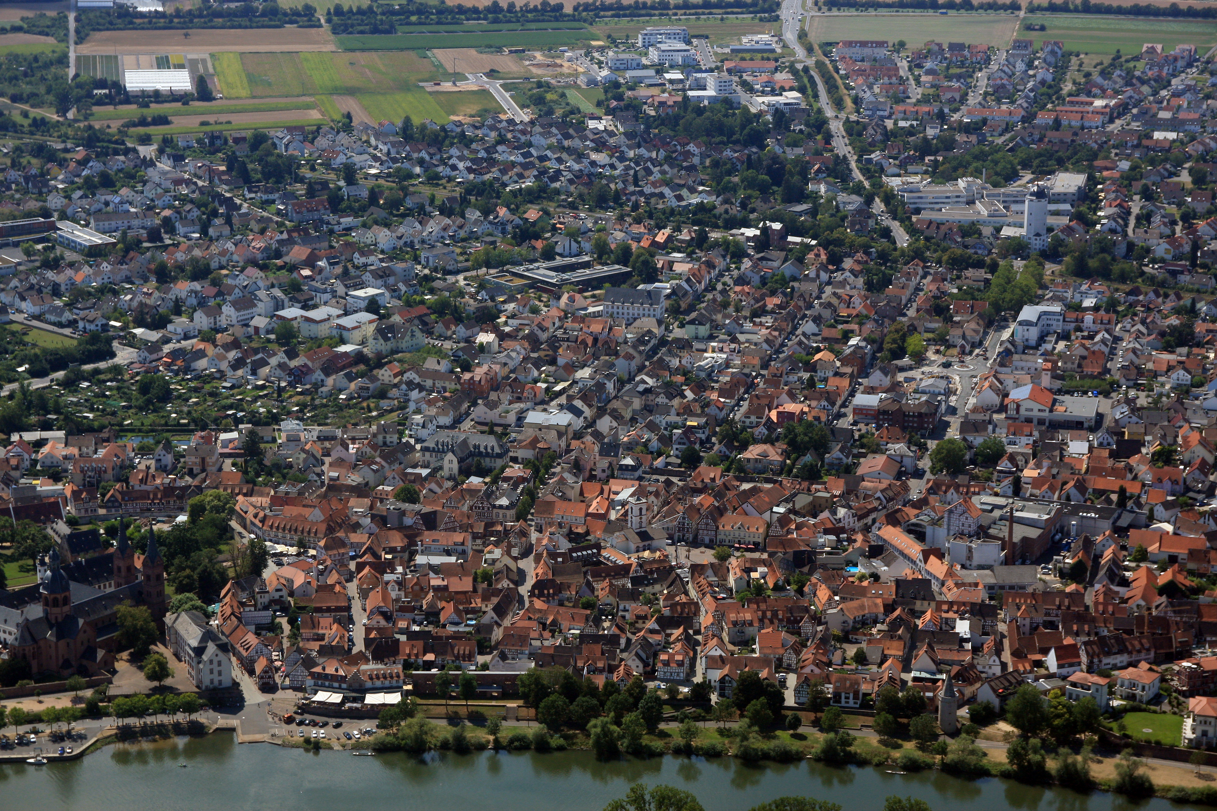 Historic old town of Seligenstadt with basilica and palatium on the banks of the Main, view from about 500m altitude. To the right of the picture center the water tower, at the top of the picture the Dudenhöfer Landstraße L3121.